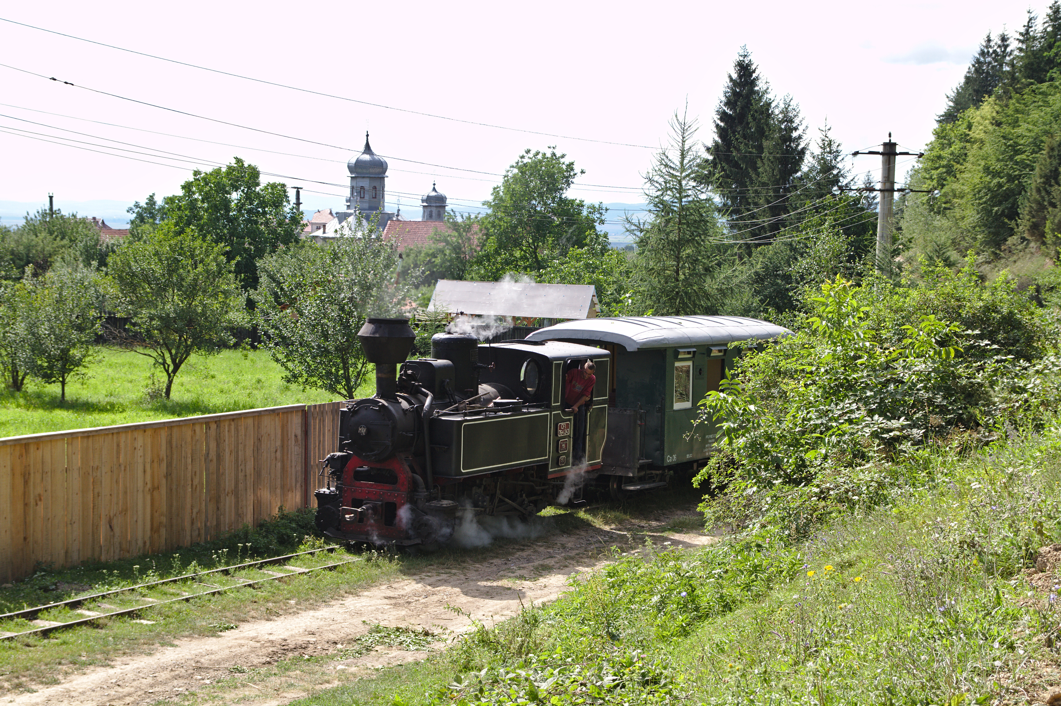 CFI 764-243 with a photo charter train on the revived lower section of the Covasna-Comandau network in Covasna